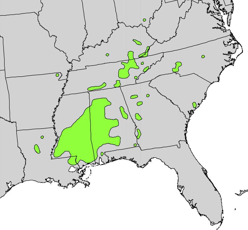 Range map of Magnolia macrophylla